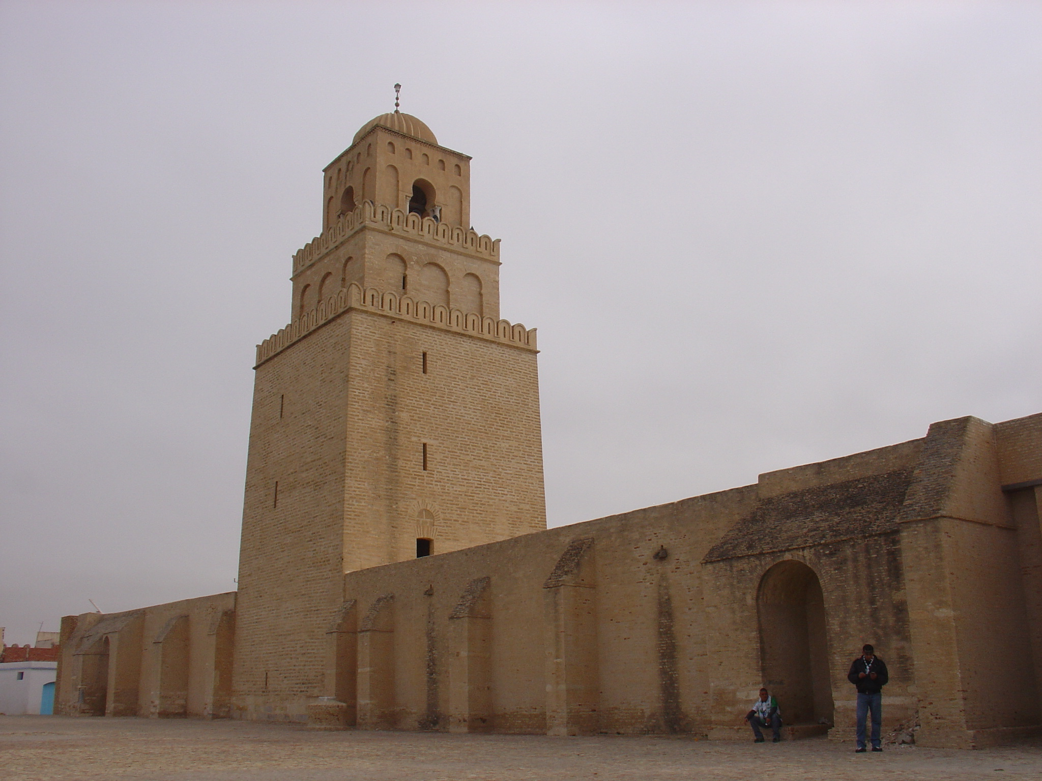 Minaret and walls of the Great Mosque of Kairouan